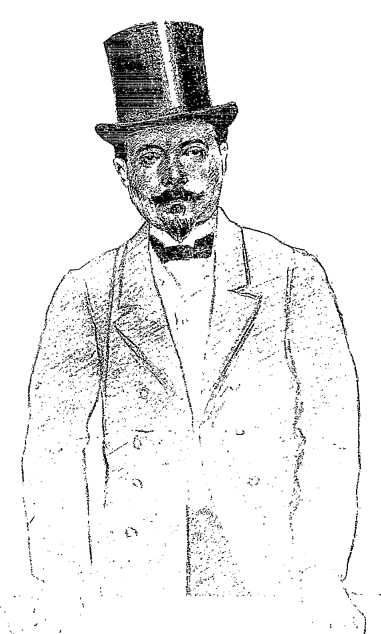 French writer, publisher and editor Léon Deschamps (1864-1899) by Frédéric-Auguste Cazals (1865-1941)